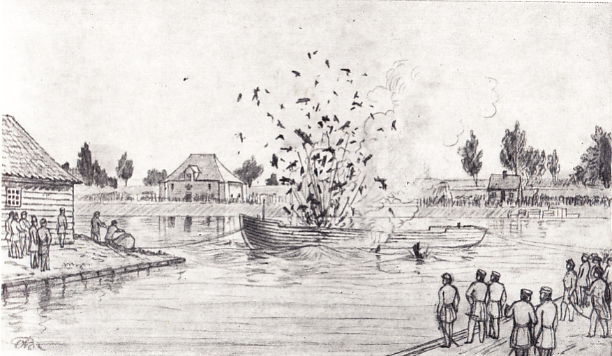 Detonation of spar torpedo at Erdkehlgraven, Holmen in Copenhagen, ca. 1875.